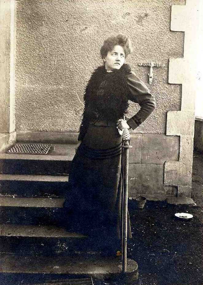 Émilie Tillon